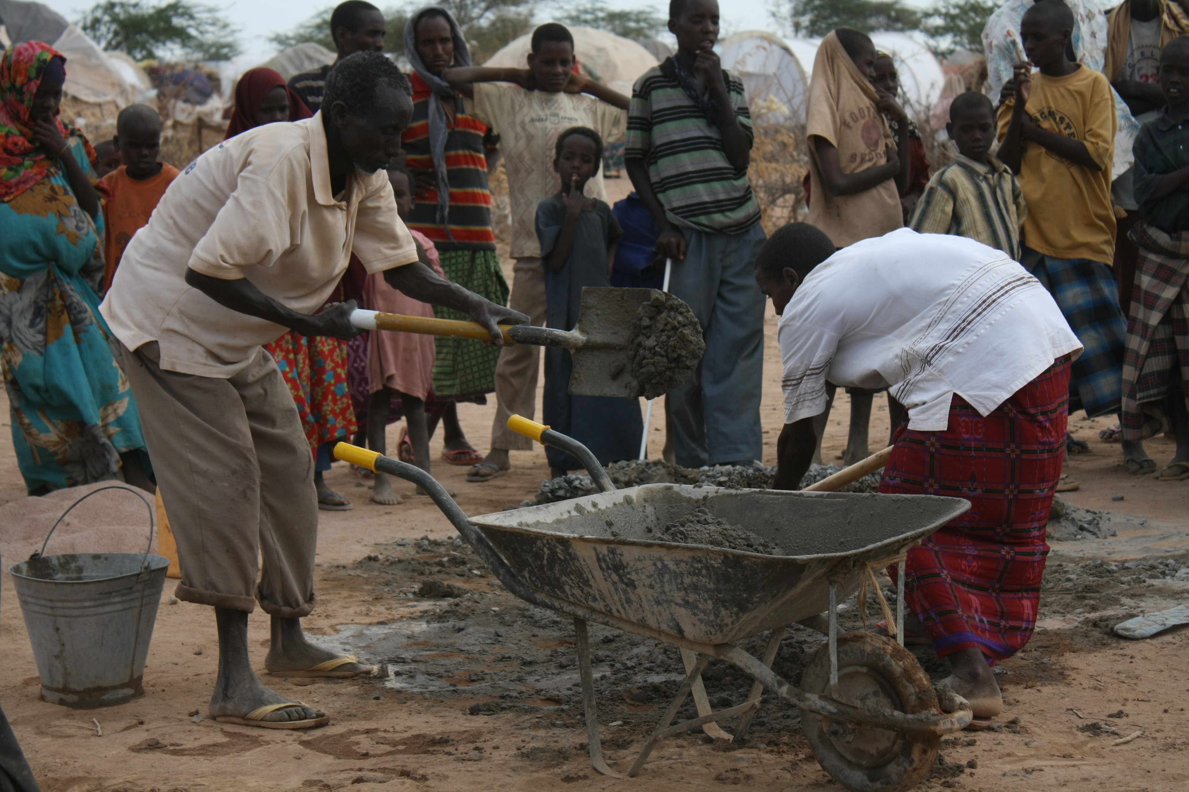 Oxfam installs a new water tank and latrines on the outskirts of IFO camp. The three camps in Dadaab (Ifo, Dagahaley and Haghadera) are overflowing with inhabitants and so Oxfam is helping people sheltering on the edge. Hundreds of people are sharing one latrine. Photo: Jo Harrison/Oxfam